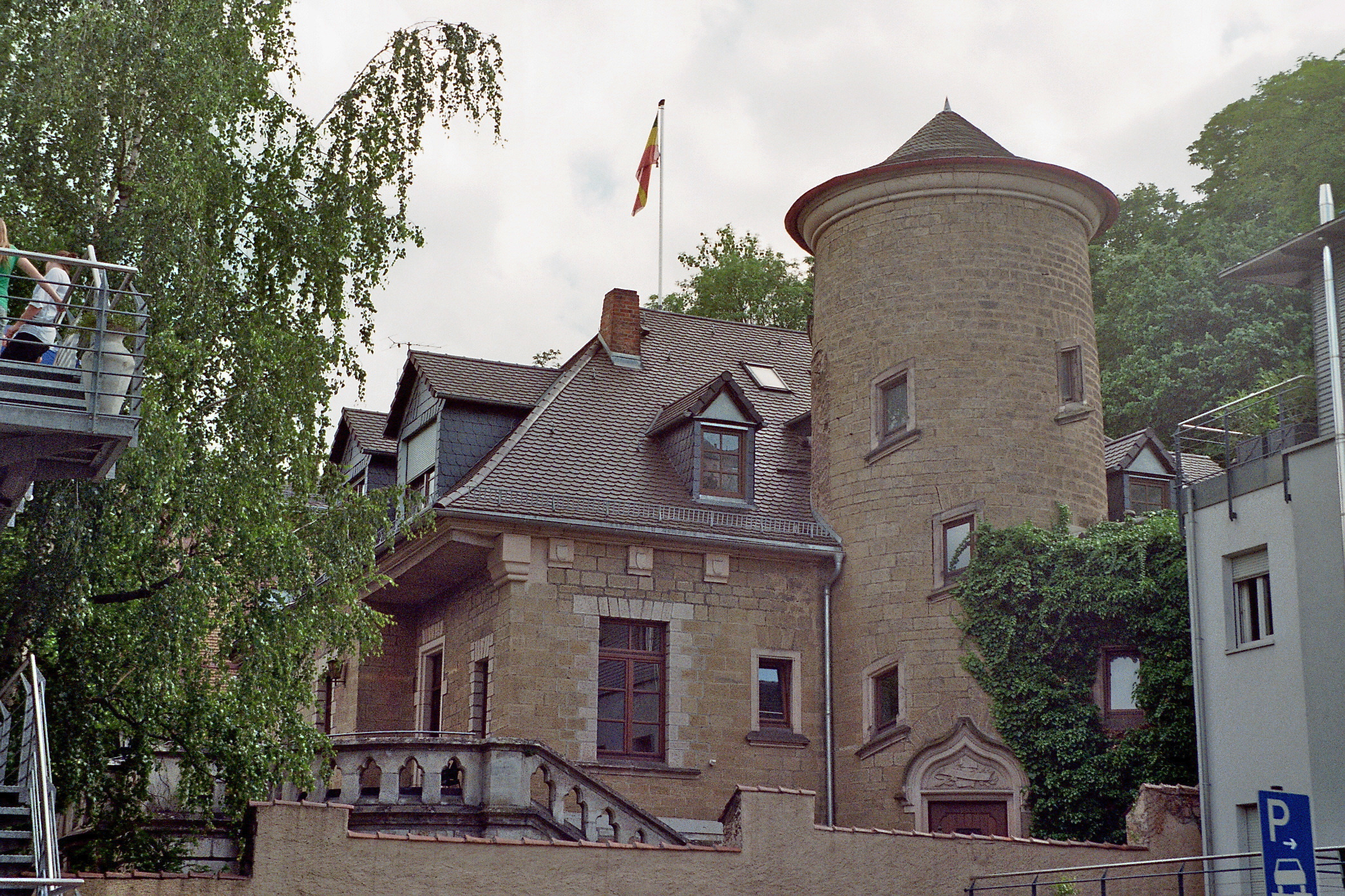 House of student fraternity "Corps Moenania Würzburg" in Würzburg/Germany